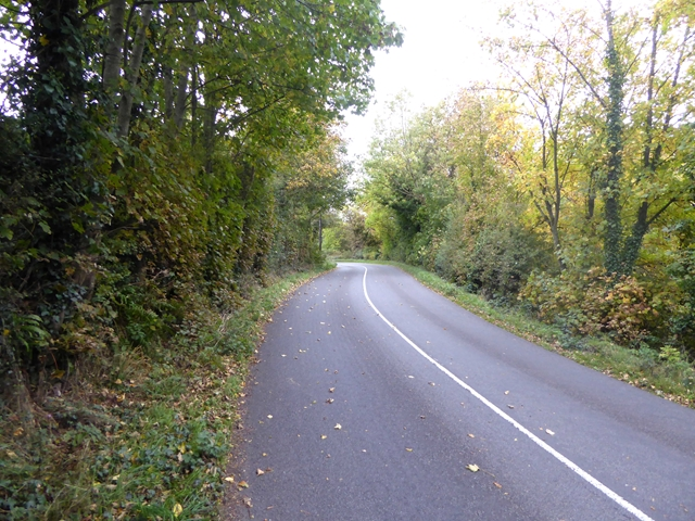 Country road near Tuitestown